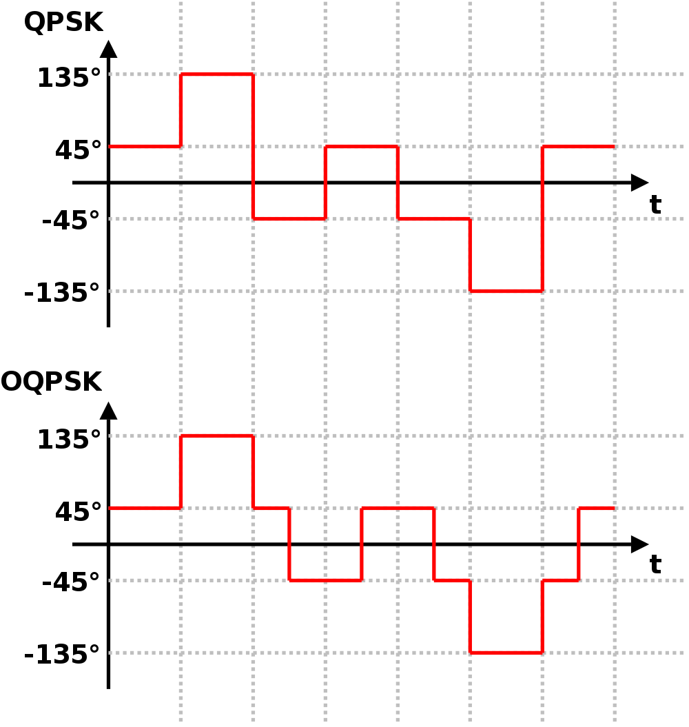 The picture shows first the plot of the phase in a standard QPSK modulation. Then it shows how the plot changes using OQPSK: the behaviour is smoother since all the 180-degrees jumps are removed.